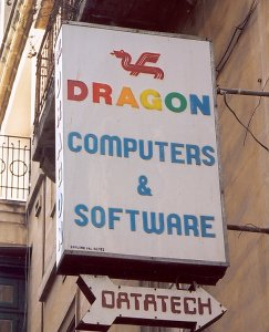 Dragon logo on a sign in Valetta, Malta, still in situ in March 2002.